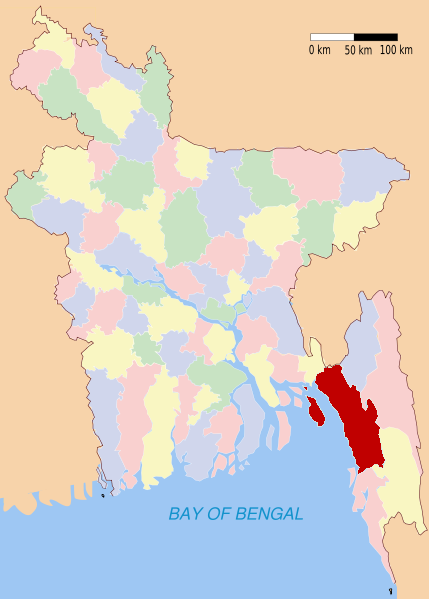 District locator map in red in Bangladesh